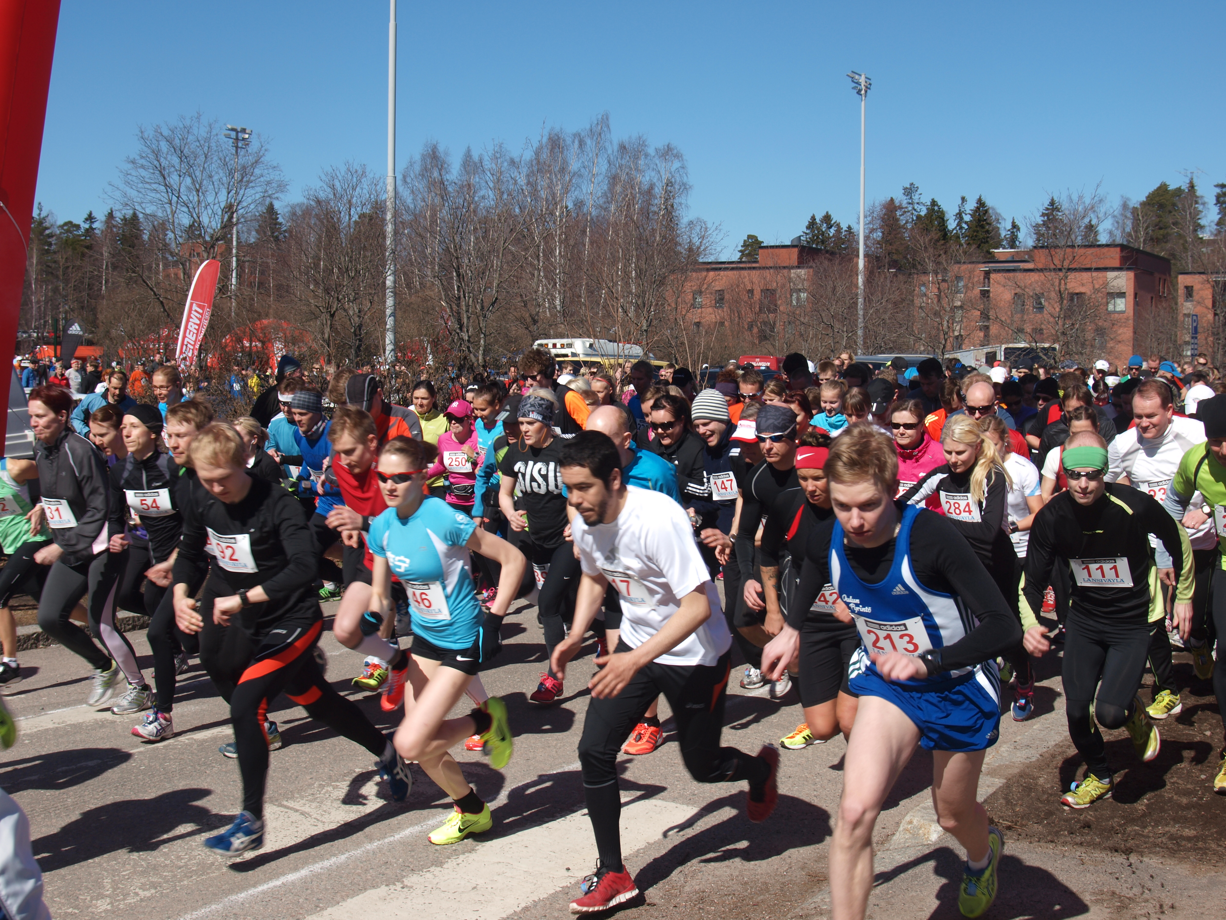 Various men and women from all over the Finnish capital region springing to start their run at the annual Länsiväyläjuoksu event in Otaniemi, Espoo, Finland in April 2013.